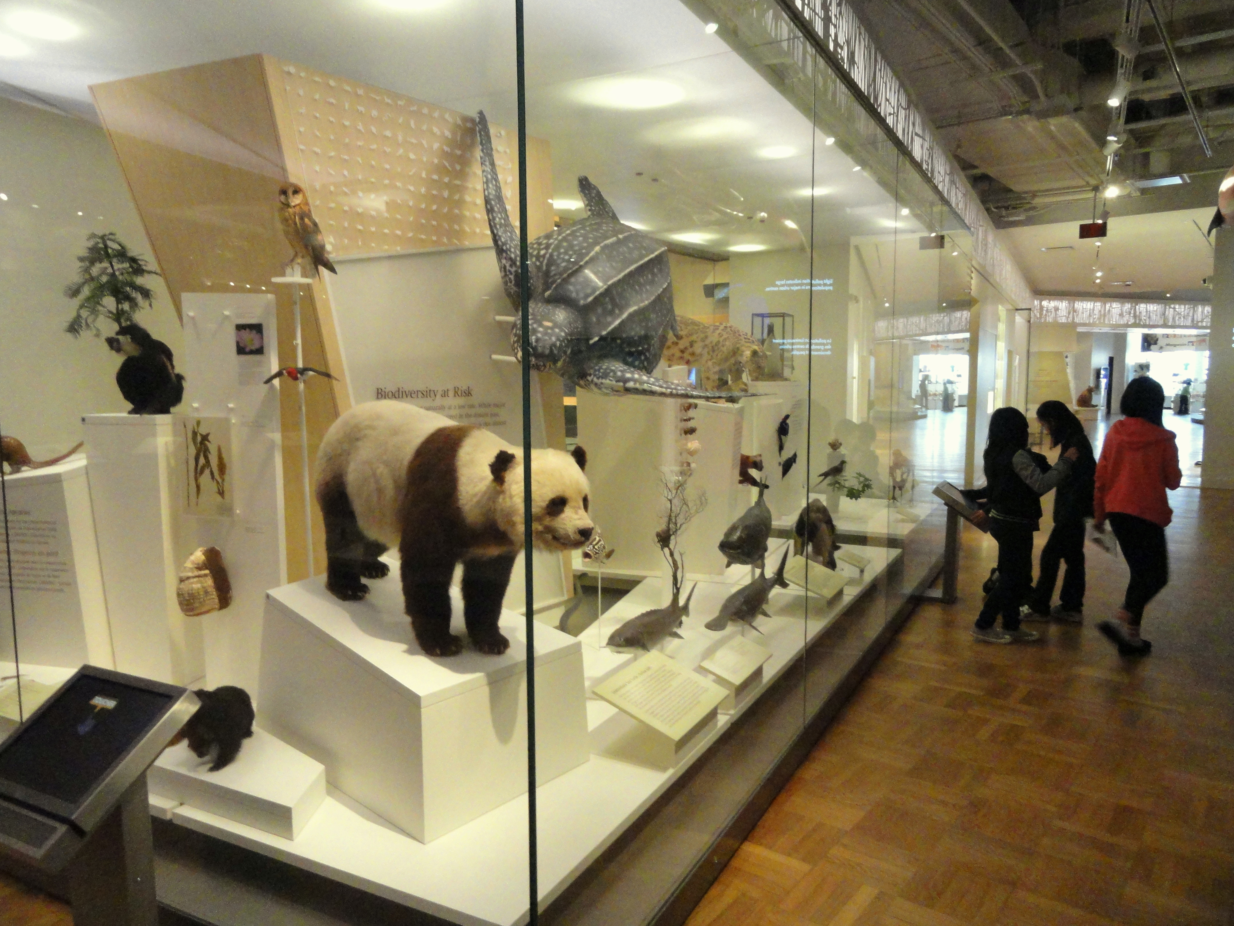 Exhibit in the Royal Ontario Museum, Toronto, Ontario, Canada. Photography was permitted in the museum. I took this photograph and release it into the public domain.